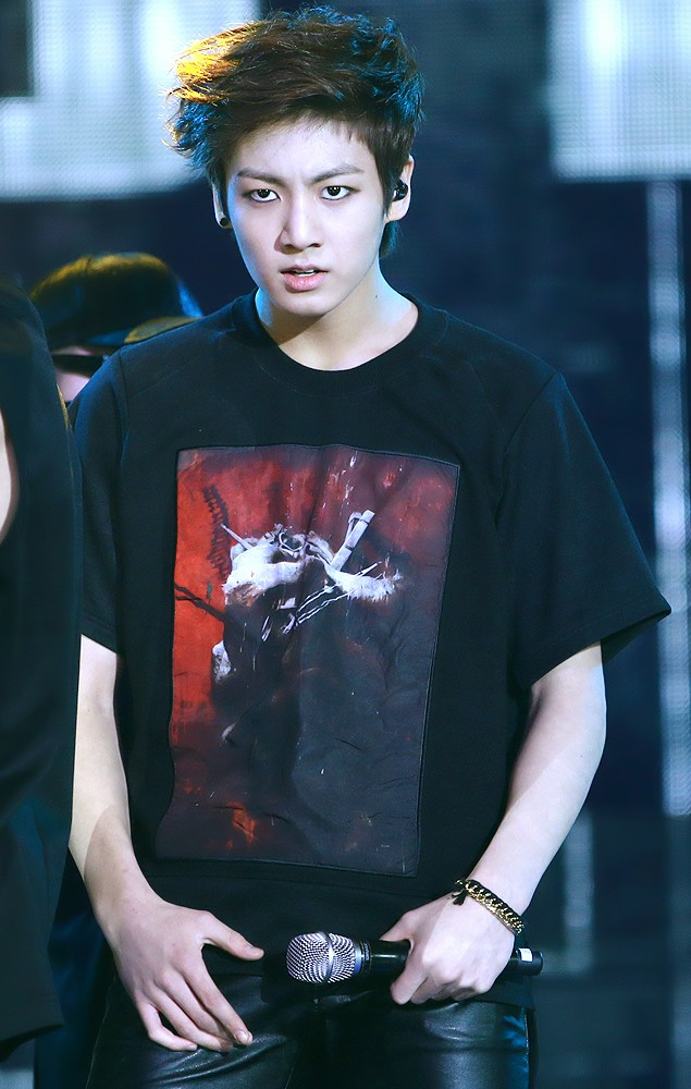 Jeon Jung-kook at Gayo Daejeon, 29 December 2013